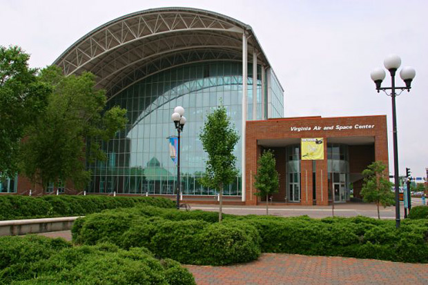 The visitor center for NASA Langley Research Center and Langley Air Force Base, VASC features hands-on aviation & space exhibits spanning 100 years of flight, more than 30 historic aircraft, space flight artifacts and a giant-screen 3D IMAX Theater.